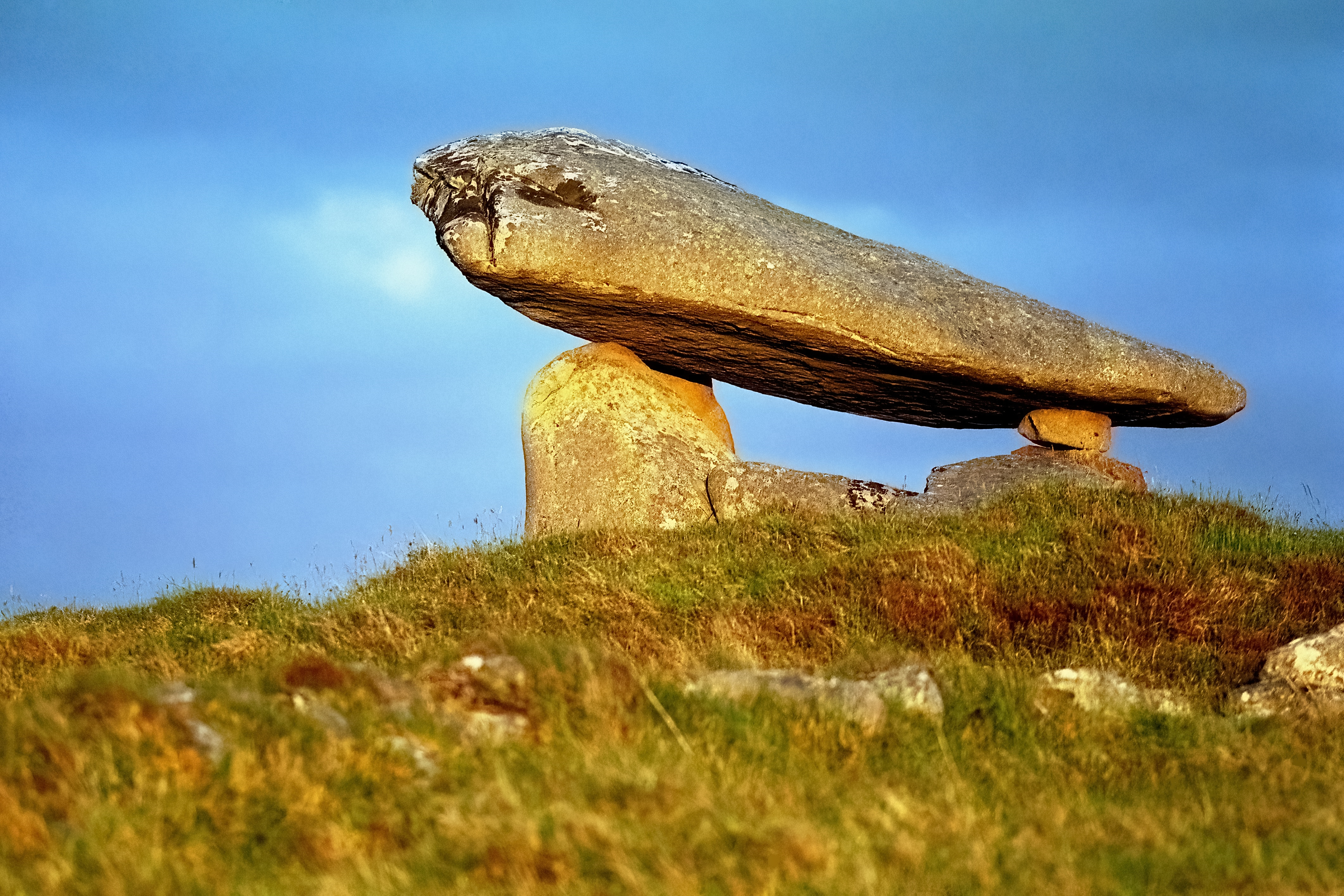 The Kilclooney Dolmen near Ardara, County Donegal, Republic of Ireland, pictured on a sunny evening in June 1986.